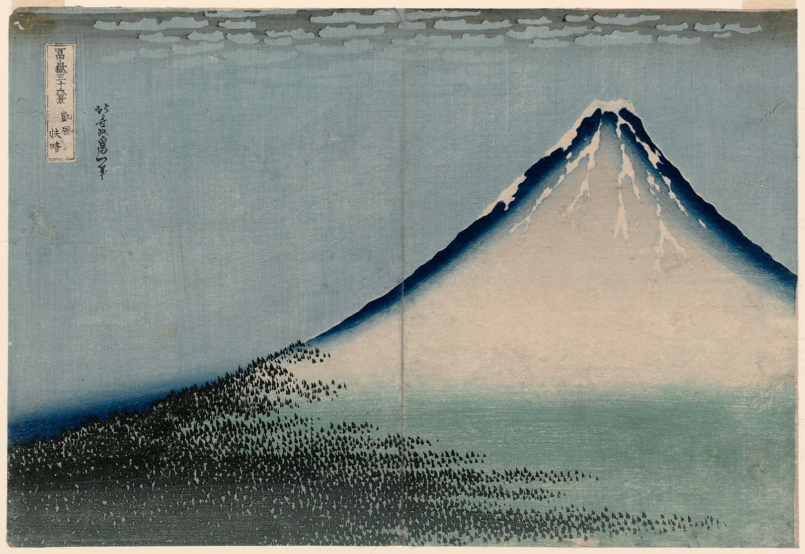 Alternative impression of Hokusai's Clear Sky Museum of Fine Arts (21.6755)